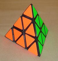 Pyraminx in its solved state Category:Honeycomb image